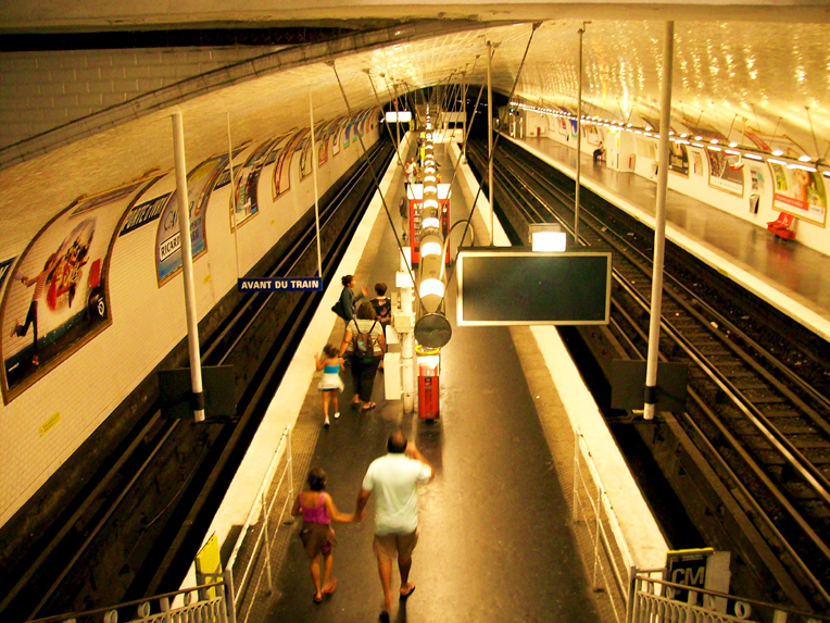 Porte d'Ivry metro in Paris